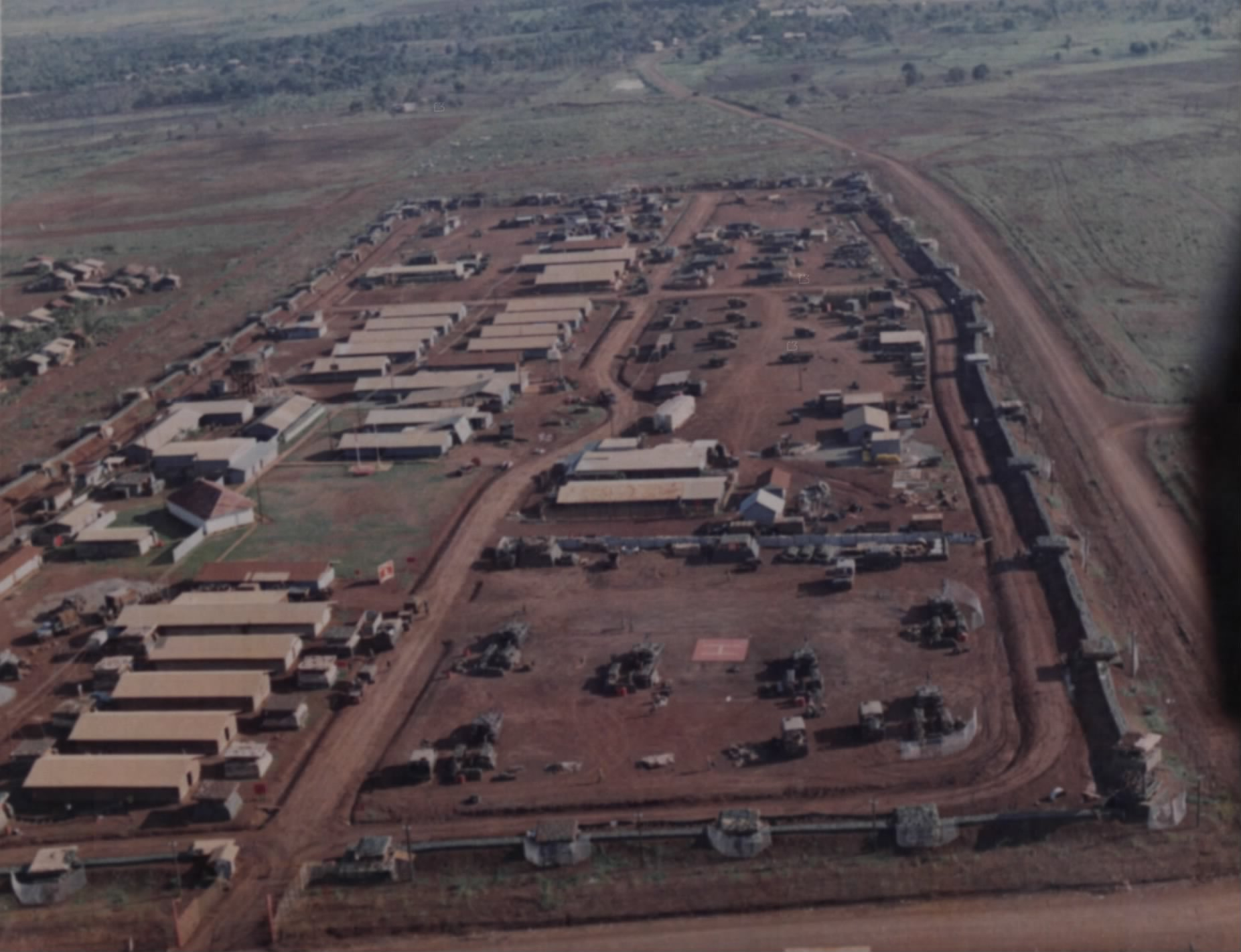 Aerial view of Fire Support Base Xuan Loc, manned by members of Battery "A," 5th Battalion, 42nd Artillery, 54th Artillery Group, II Field Force.